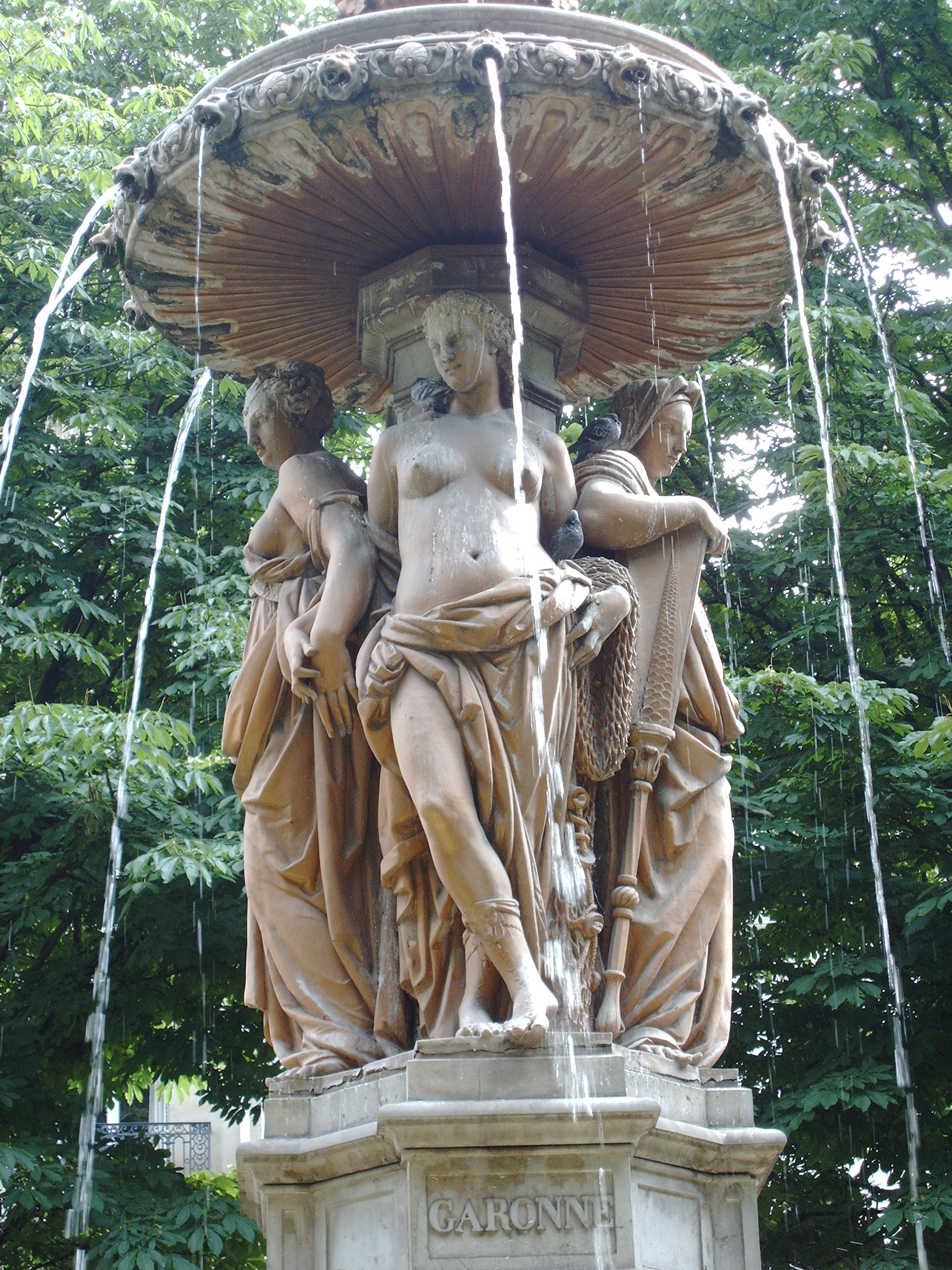 Fountain inaugurated in the 1840's in Paris' 2nd arrondissement Architecture : Louis Visconti (1791–1853) Description French architect Date of birth/death11 February 179123 December 1853Location of birth/deathRomeParisAuthority control VIAF: 24653651 ISNI: 0000 0001 1608 8885 ULAN: 500008209 LCCN: nr92041841 GND: 119100932 WorldCat Sculpture : Jean-Baptiste Jules Klagmann (1810–1867) Description French sculptor Date of birth/death18101867Authority control VIAF: 95944321 ULAN: 500040676 GND: 140248021 SUDOC: 18167033X